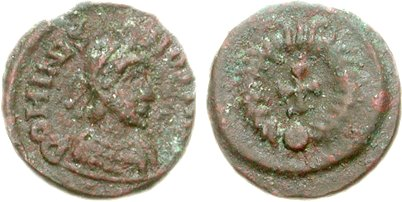 Roman coin from Carthage, commonly attributed to comes Bonifatius (422-431)